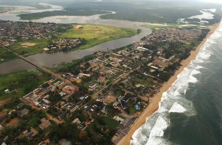 City of Grand Bassam, Ivory Coast